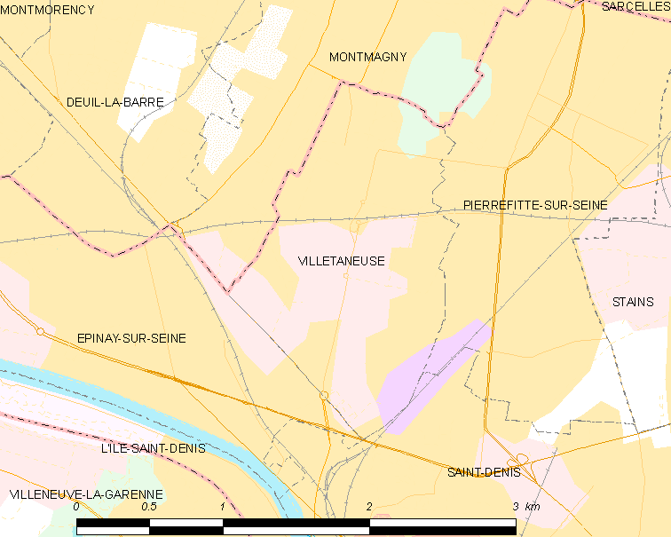 Map of French municipality Villetaneuse